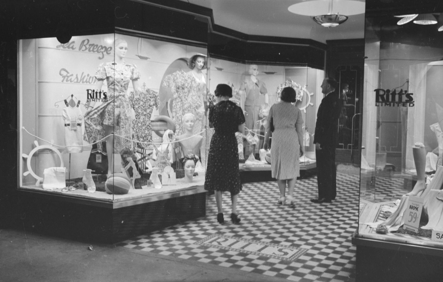 Pedestrians window-shopping at Ritts, a women's clothing store, at 97 Rideau Street, Ottawa, Canada.